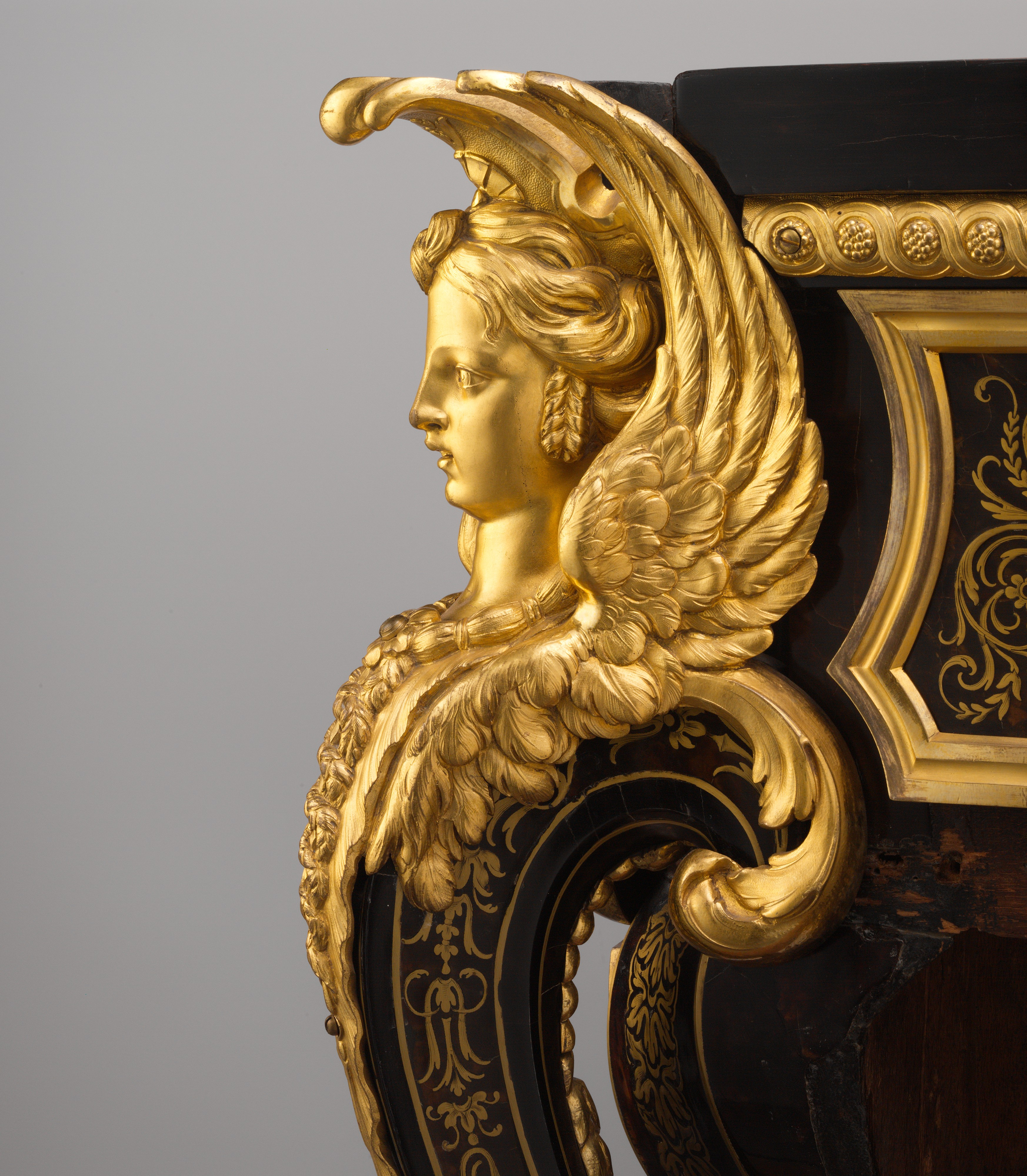 French; Commode; Woodwork-Furniture